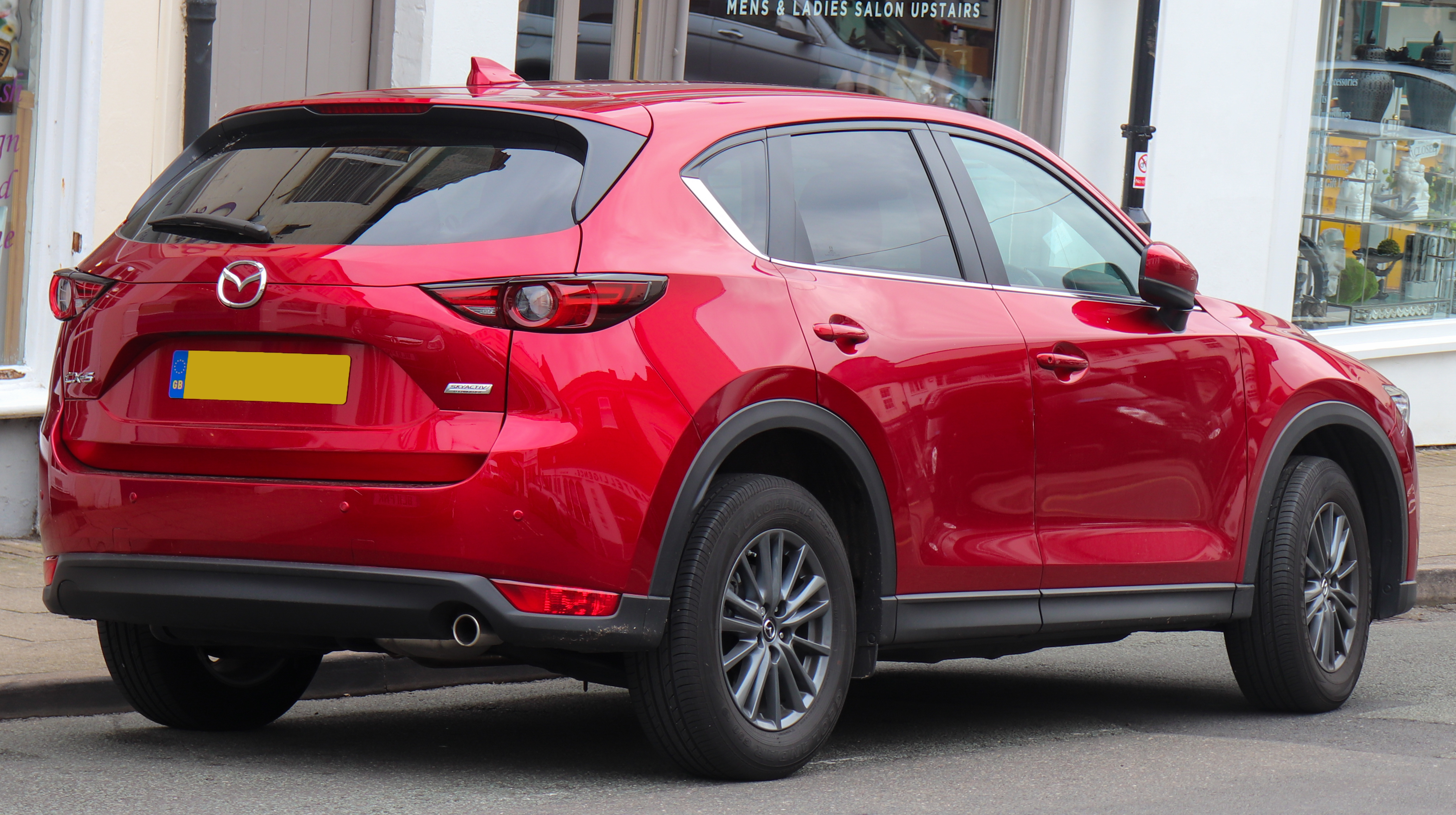 2019 Mazda CX-5 SE-L NAV+ Diesel 2.2 Rear Taken in Leamington Spa